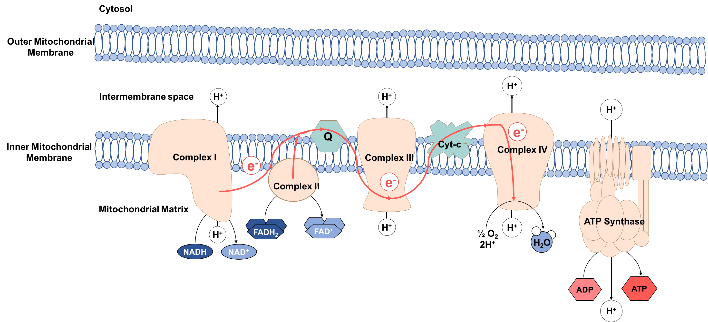 Complex I-V in the Inner Mitochondrial Membrane. Image shows ATP production and electron transport